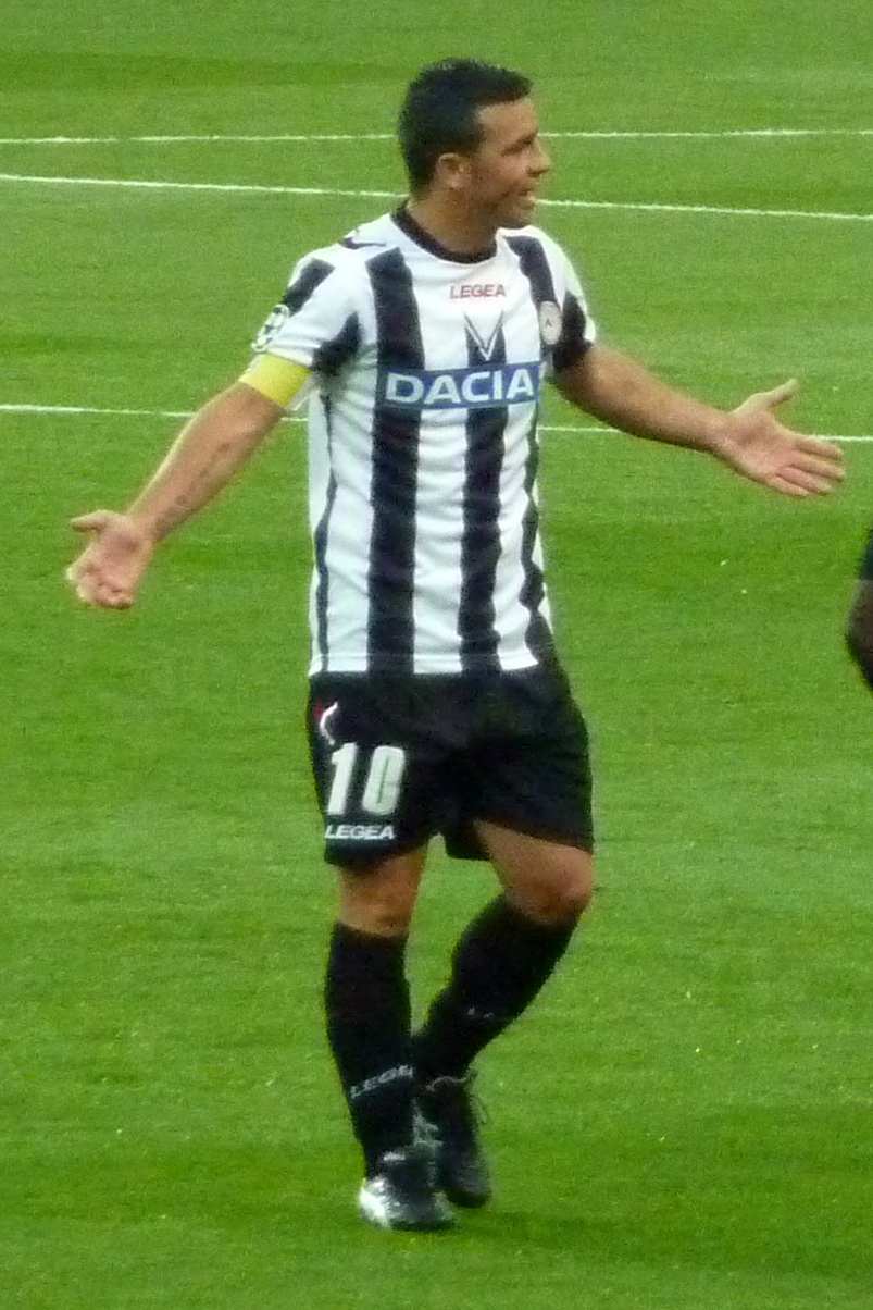 London (England), Emirates Stadium, August 16, 2011. Arsenal F.C. v Udinese Calcio 1-0, 2011–12 UEFA Champions League play-off, 1st leg: Udinese's captain Antonio Di Natale.